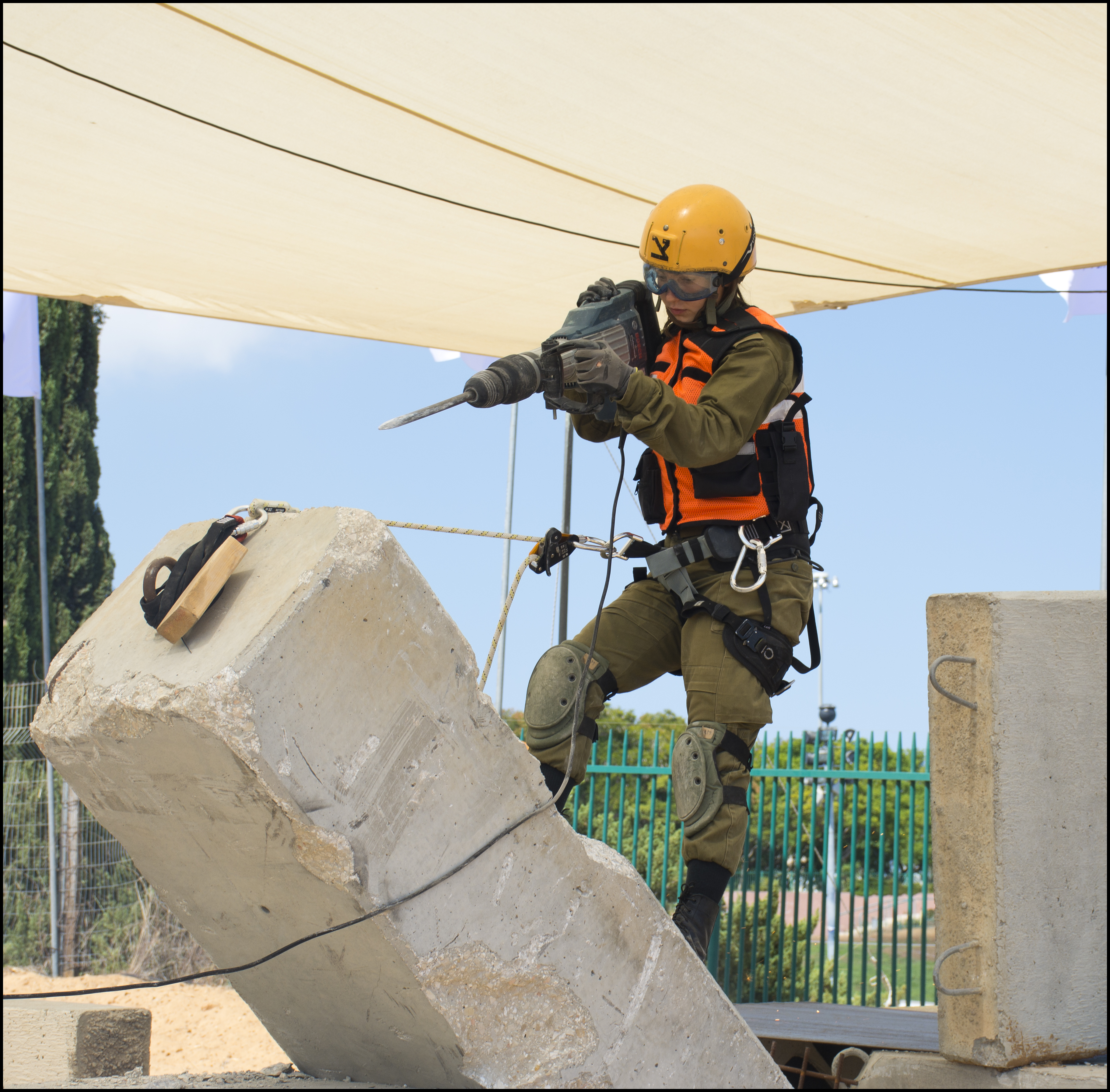 Home Front Command - Rescue Operations Division demonstrate how to save trapped humans under debris, Our IDF 70, Israel